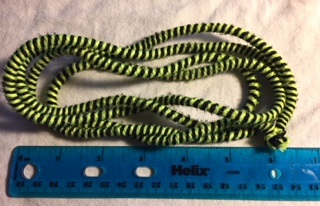 A Chinese jump rope coiled above a ruler.